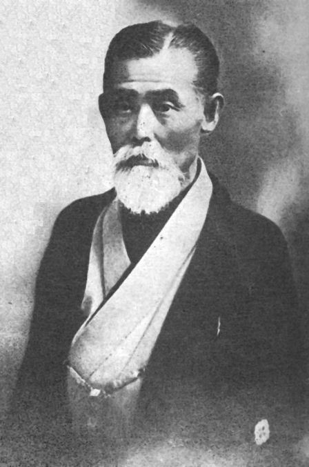 a Japanese man 福地源一郎 (Genichiro Fukuchi)